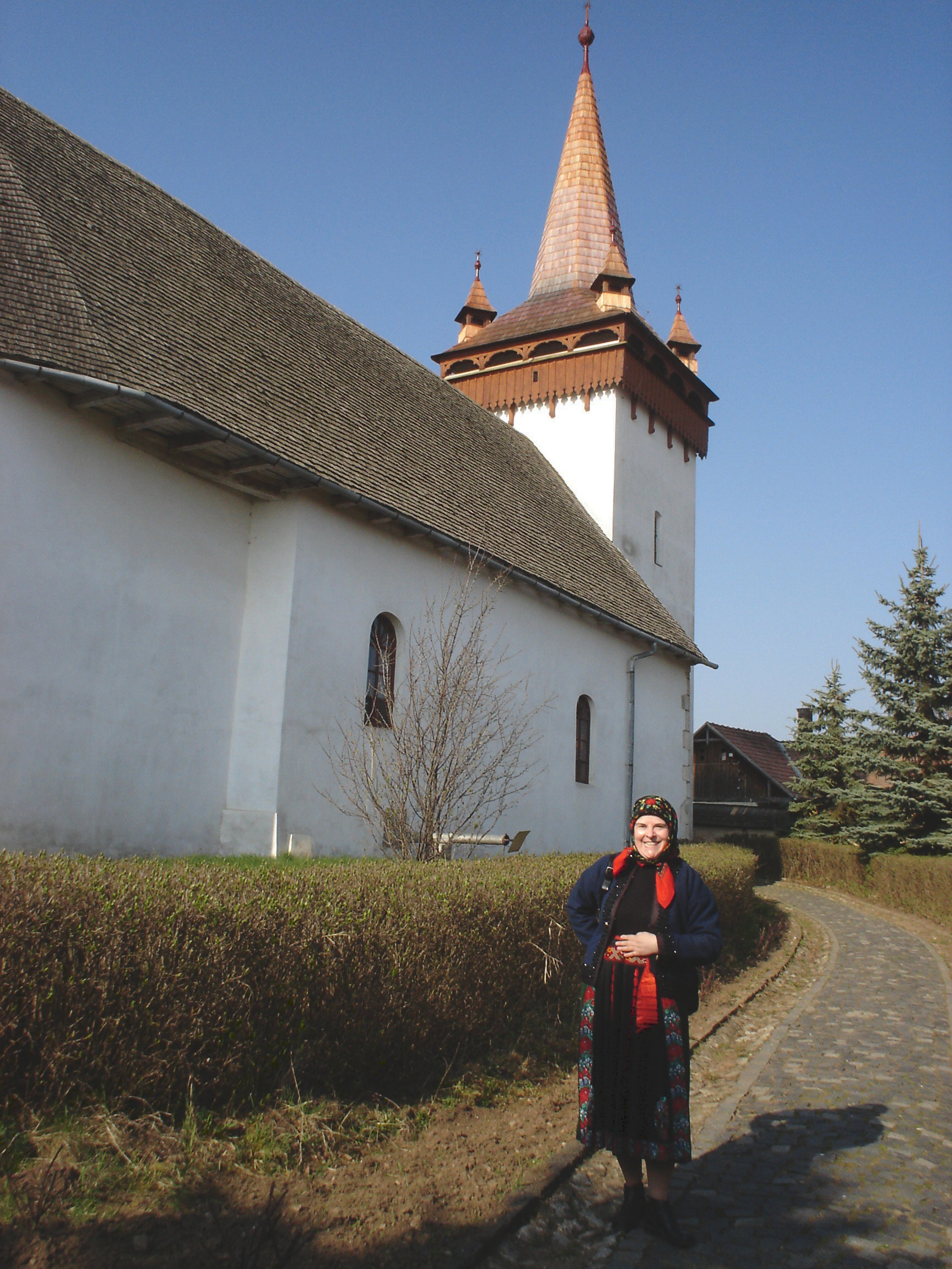 Reformated curch of Sâncraiu, Transylvania, Romania